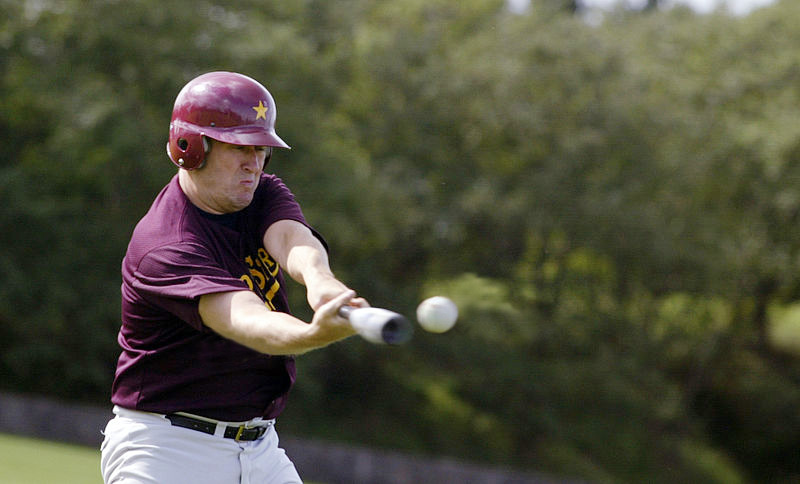 Gord Cuthbert of the Belfast Northstars